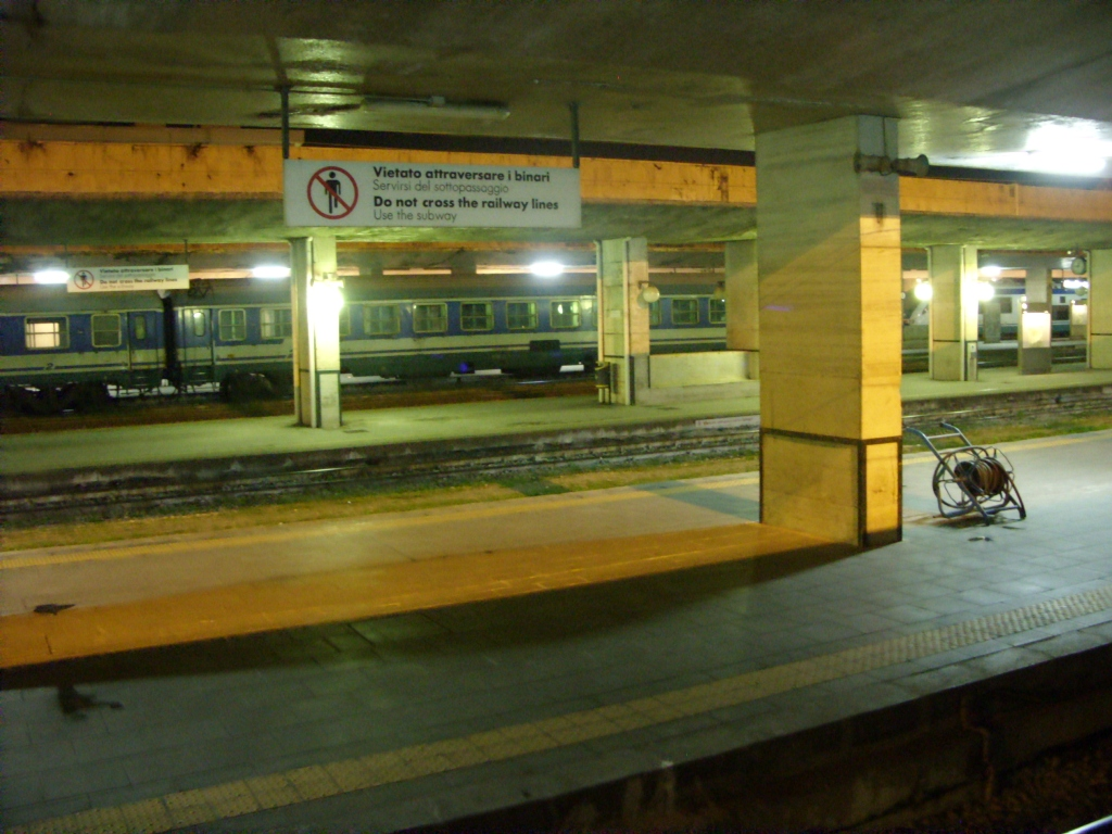 Night view of Messina Centrale railway station